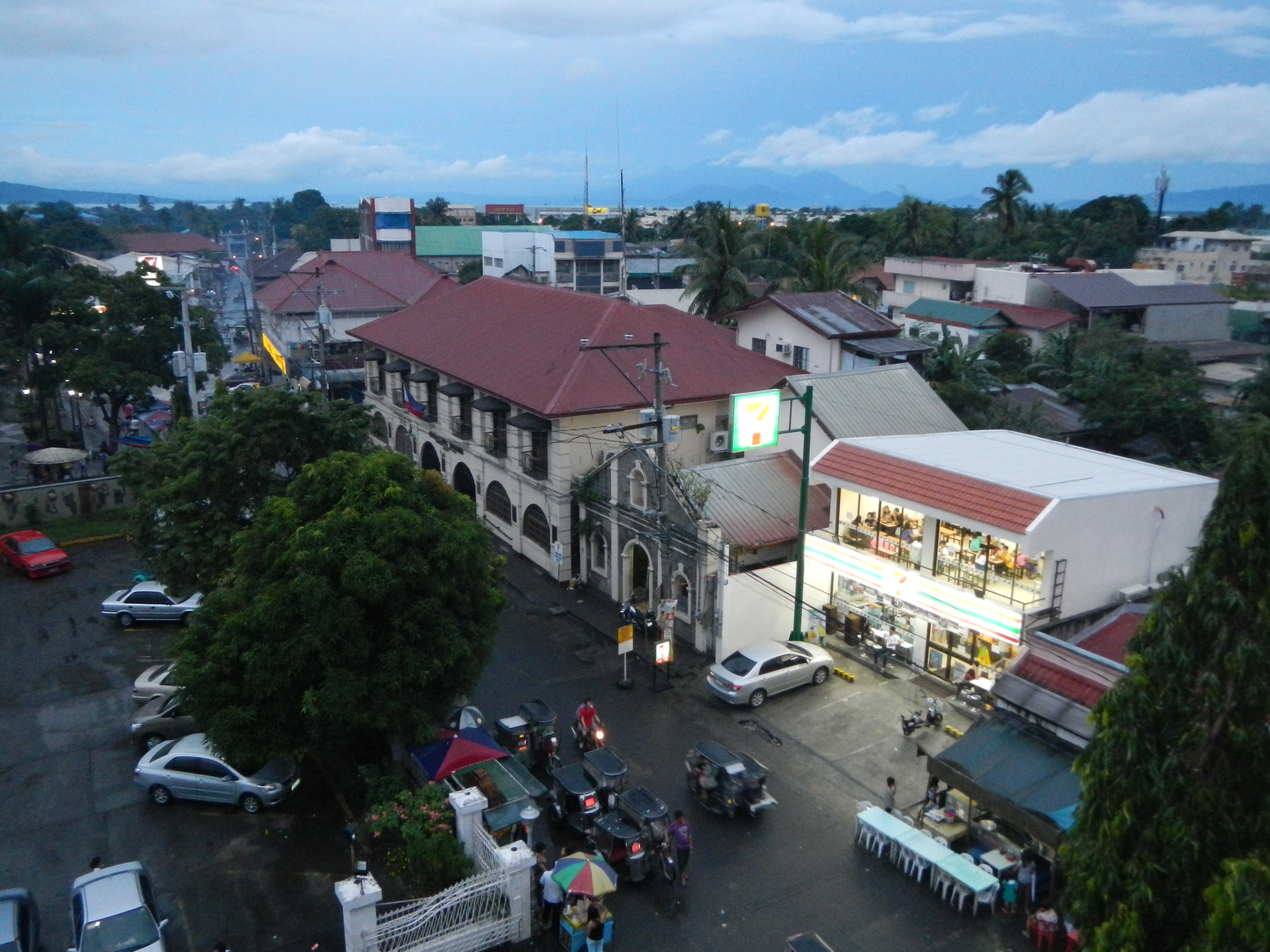 UploadWizard photos -- (General description, 3-dimension angle by angle photography of this town, church & landmarks) -- of the heritage bells of Santa Rosa, Laguna [1] (City of Santa Rosa (Filipino: Lungsod ng Santa Rosa) is a city in the province of Laguna, Philippines) Church and the scenic, skyling view of the City proper and its landmarks from the uppermost stairs of the Church heritage bell tower -- of Santa Rosa de Lima Parish Church of Santa Rosa Kanluran (Poblacion) - belongs to the Roman Catholic Diocese of San Pablo[2]